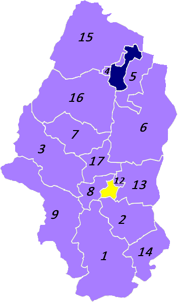 Map of the 17 electoral cantons of the French department of Haut-Rhin, made official in 2015 (marked yellow Mulhouse include cantons Mulhouse-1, Mulhouse-2 and partly Mulhouse-3, marked blue Colmar include Colmar-1 and Colmar-2 partly).